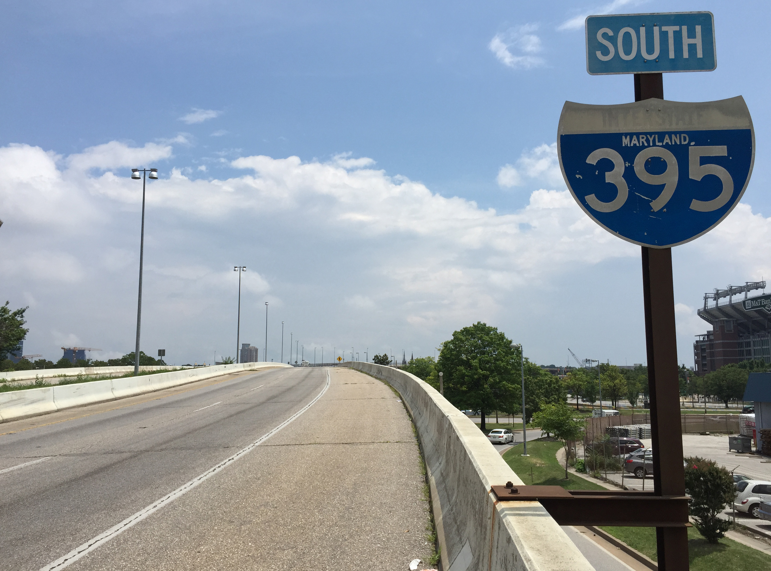 View south along the ramps connecting Martin Luther King Junior Boulevard to Interstate 395 (Cal Ripken Way) in Baltimore City, Maryland